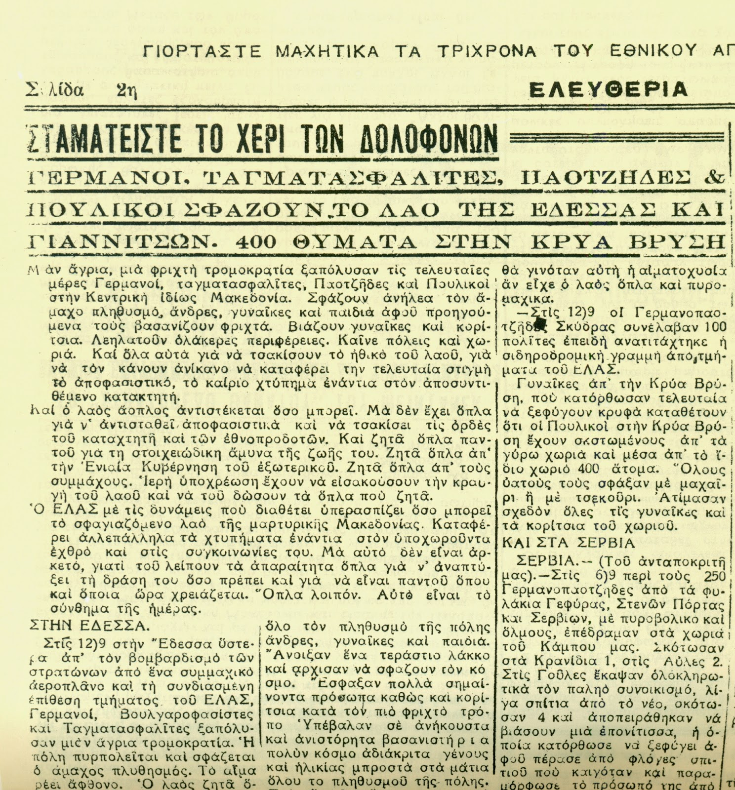 Greek underground newspaper “Eleftheria”, published in Nazi-occupied Macedonia, dated September 27,1944.